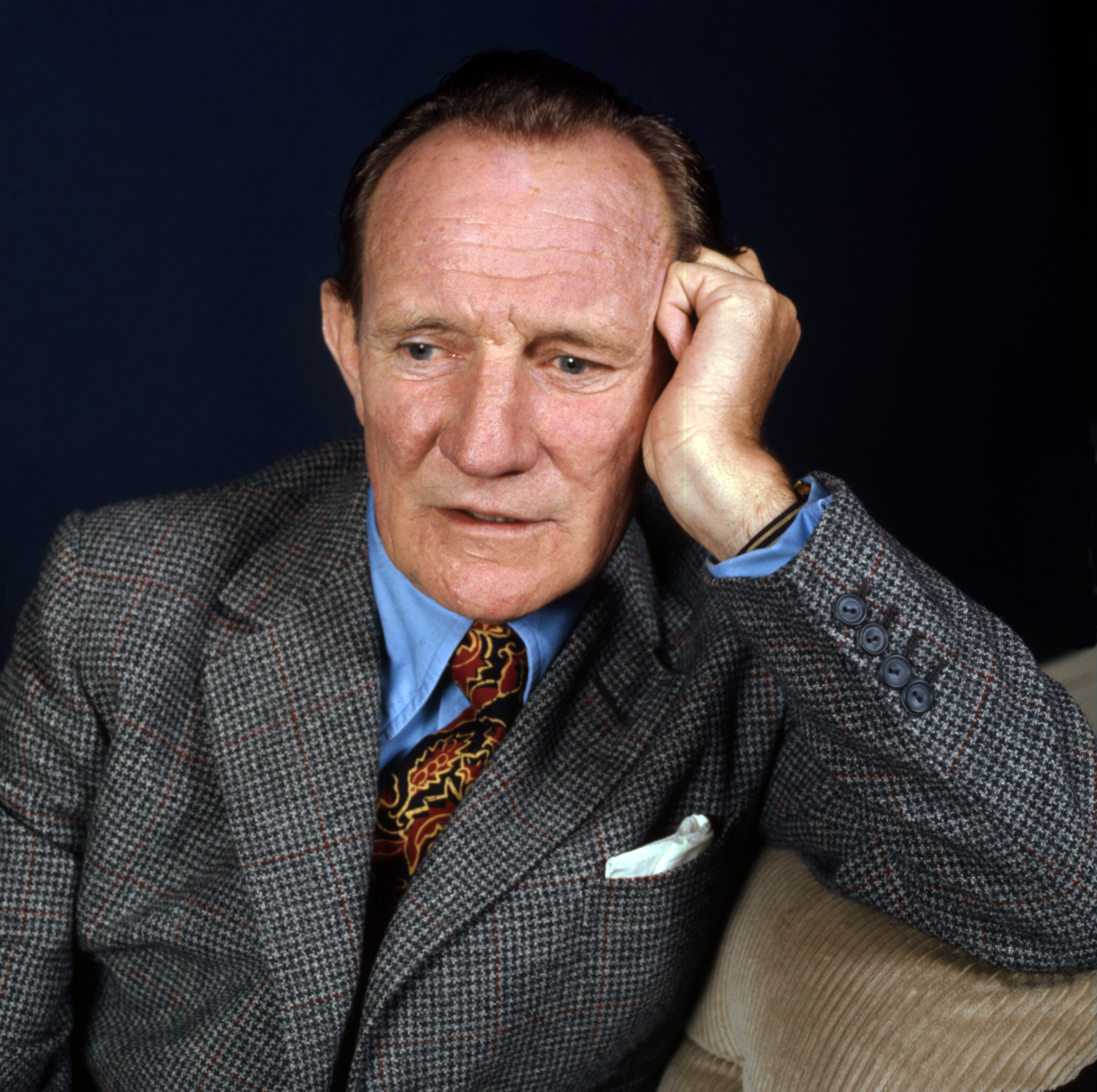 Portrait of Trevor Howard. Portrait of Trevor Howard taken in London